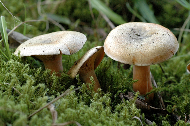 Lactarius deterrimus from Commanster, Belgium. The determination of the species shown in this picture has been verified.